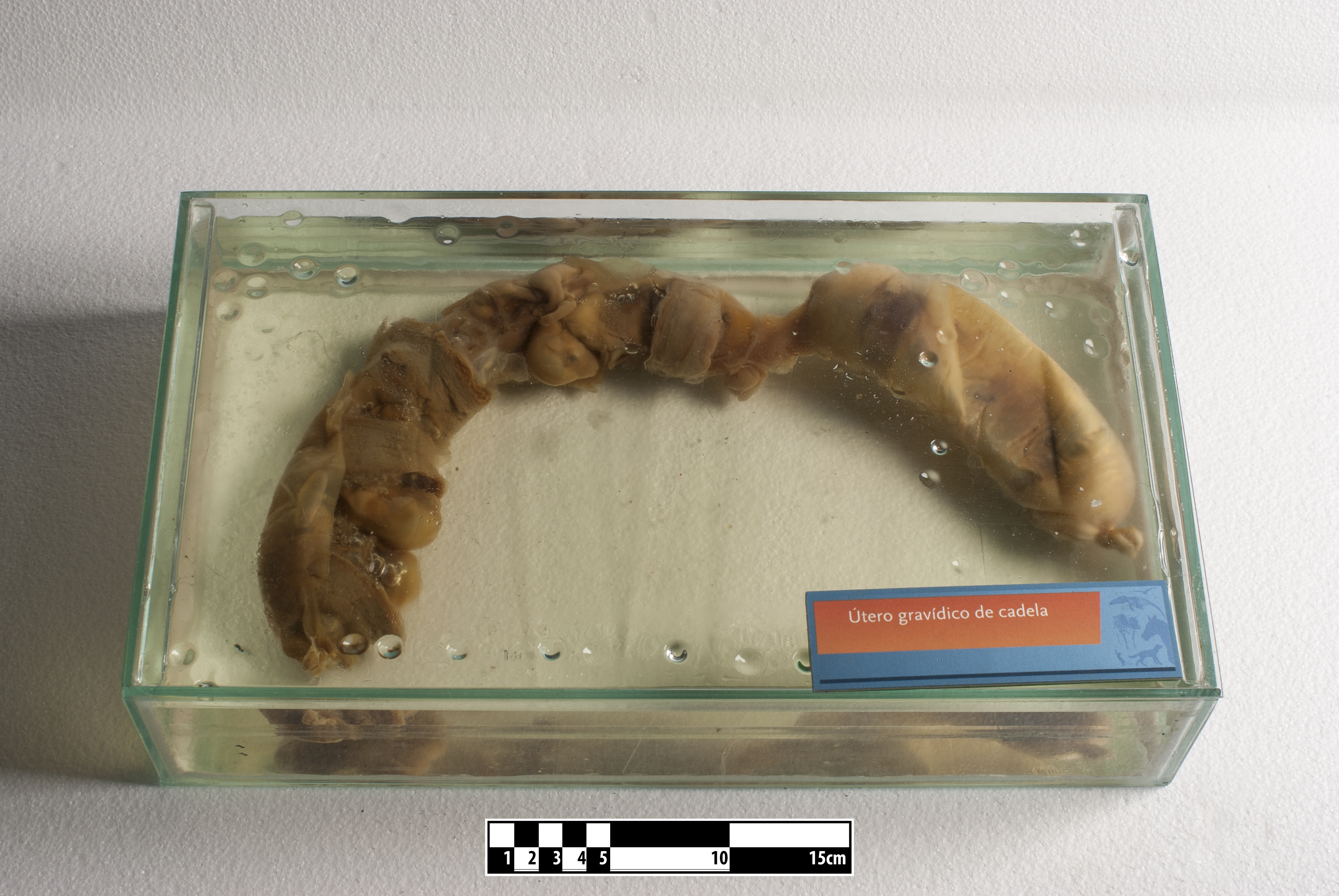 Uterus of a dog. Canis lupus familiaris Technique of glycerination. Displayed at the Museum of Veterinary Anatomy, FMVZ USP. This file was published as the result of a partnership between the Museum of Veterinary Anatomy FMVZ USP, the RIDC NeuroMat and the Wikimedia Community User Group Brasil. This GLAM project is reported. Photography: Museum of Veterinary Anatomy FMVZ USP. Author: Wagner Souza e Silva.